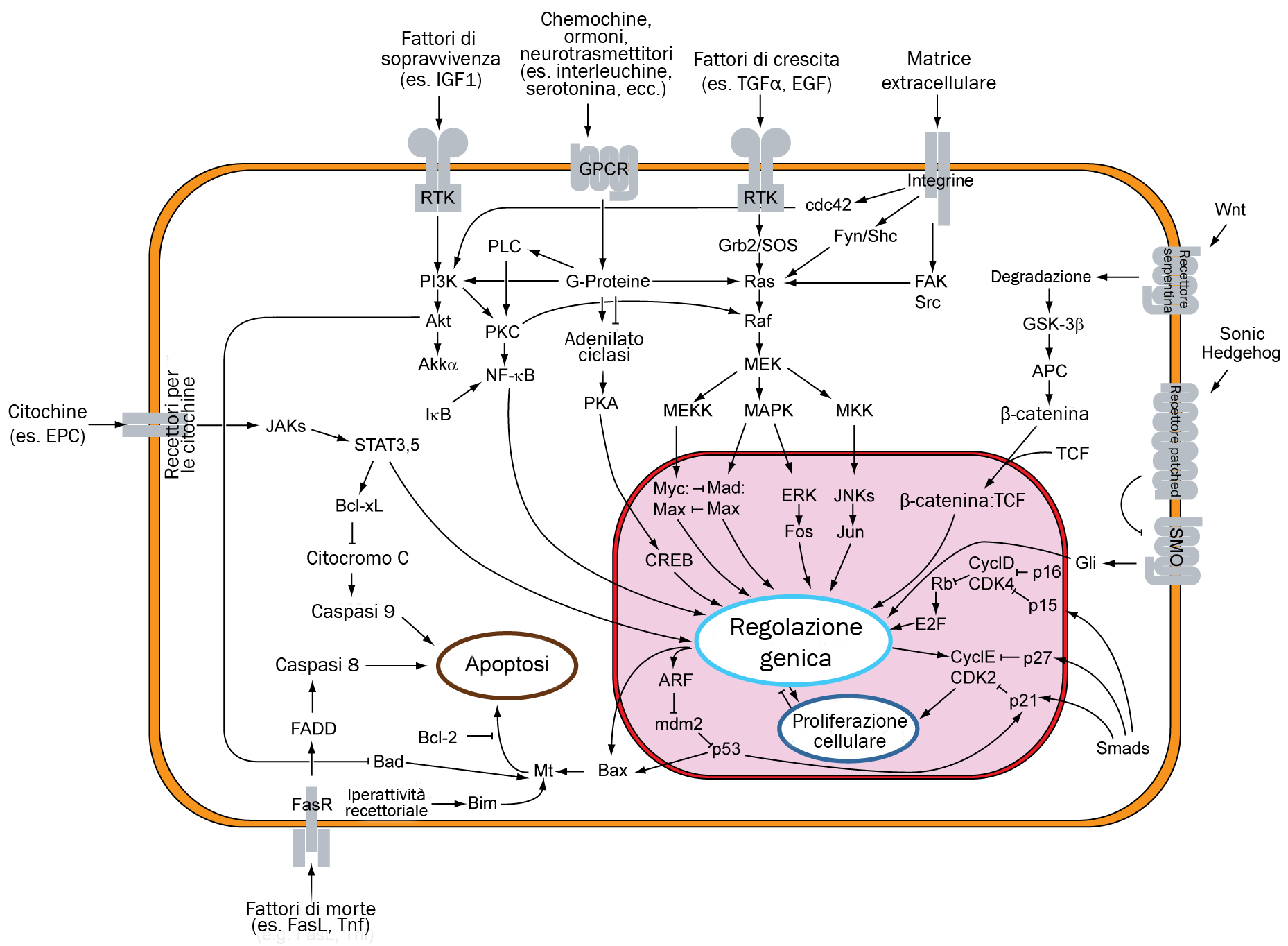 new version of old figure self-made in illustrator, translation in Italian.